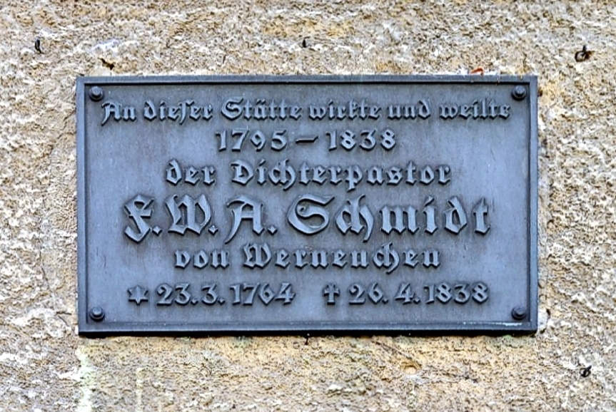 Memory tablet for Friedrich Wilhelm August Schmidt (called "Schmidt von Werneuchen", 1764-1838) a german priest and poet. Applied at the parsonage in Werneuchen near Berlin (Germany).